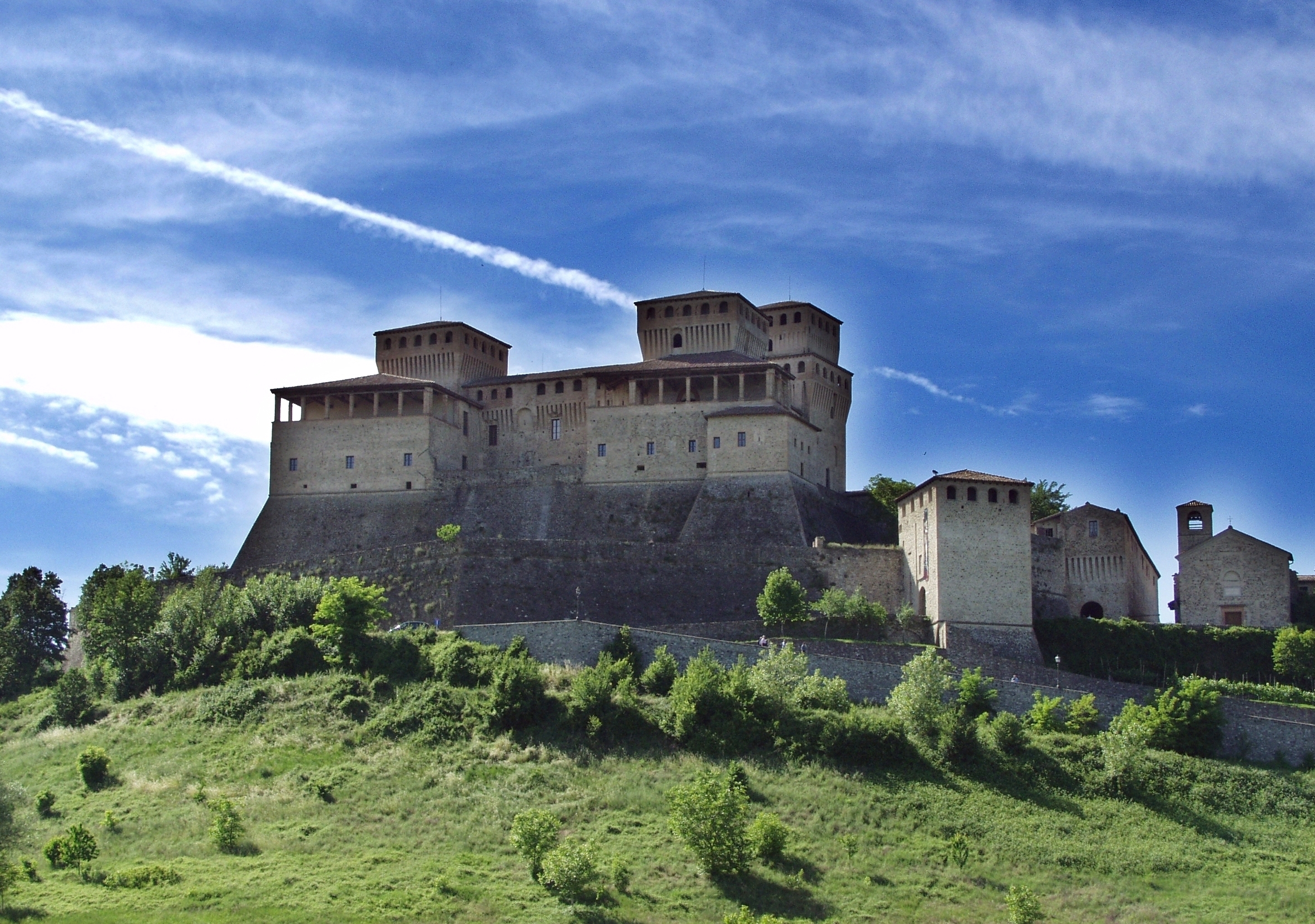 The Castle of Torrechiara (Parma).